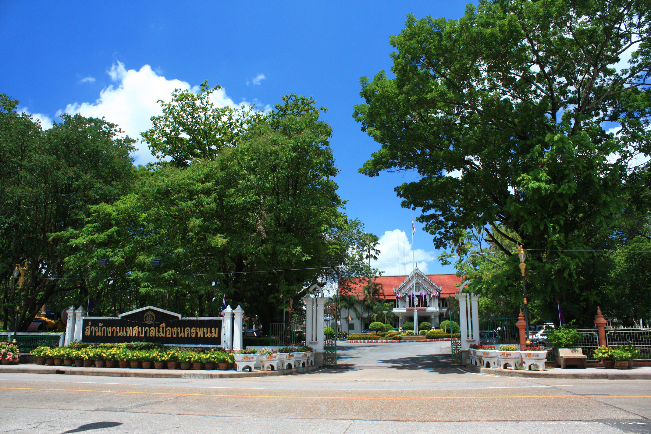 Thesaban Mueang Nakhon Phanom